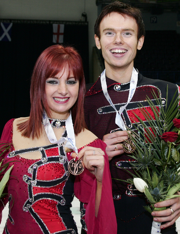 Photograph for inclusion in the Louise Walden ice dancer page